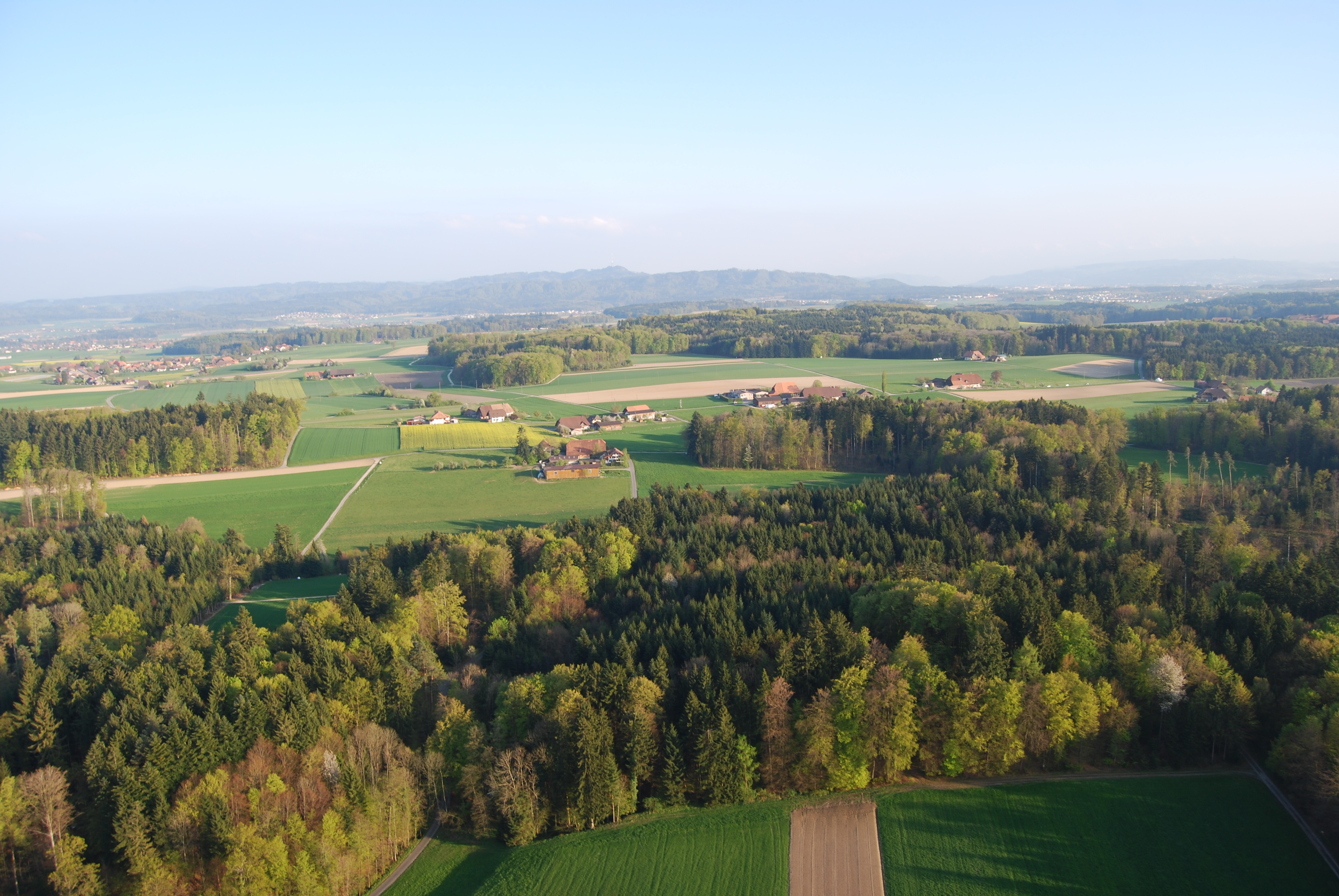 Scheunen, canton of Berne, Switzerland